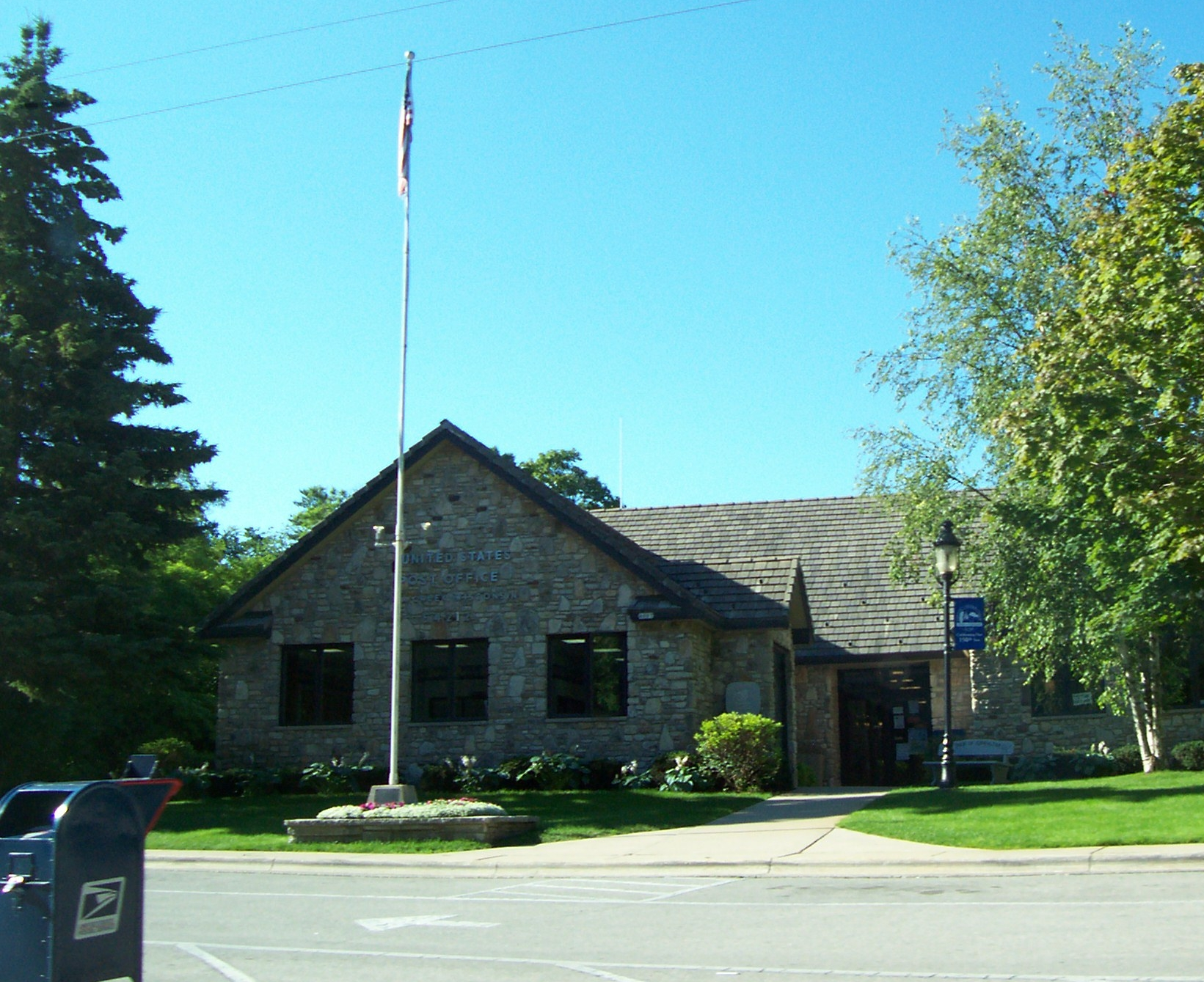 Looking at the post office for Fish Creek, Wisconsin, USA on Wisconsin Highway 42. The building is the town hall for Gibraltar, Wisconsin according to a sign that was cropped off.